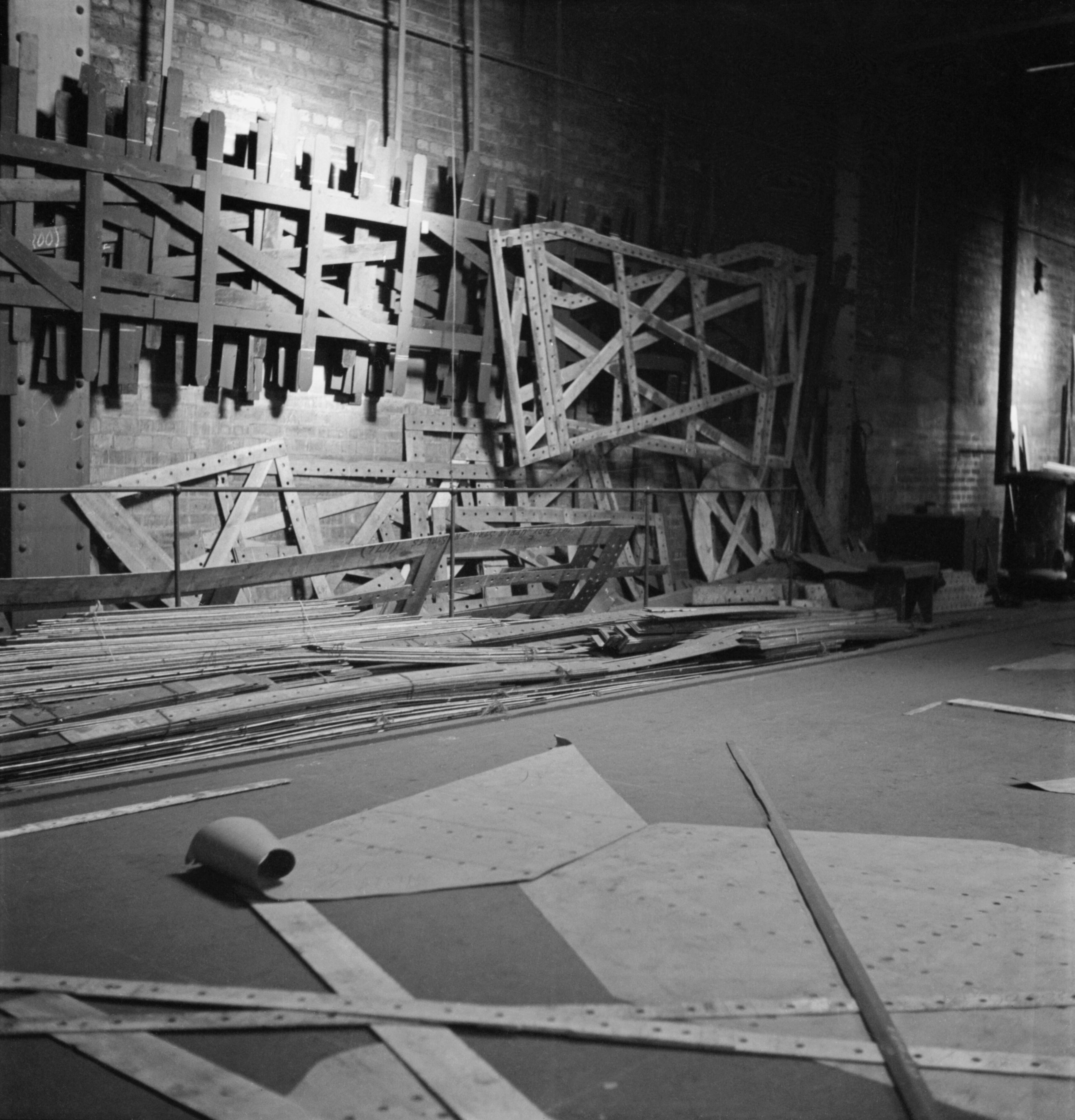 Cecil Beaton Photographs- Tyneside Shipyards, 1943 An interior view of a mould loft showing the large templates used in shipbuilding.